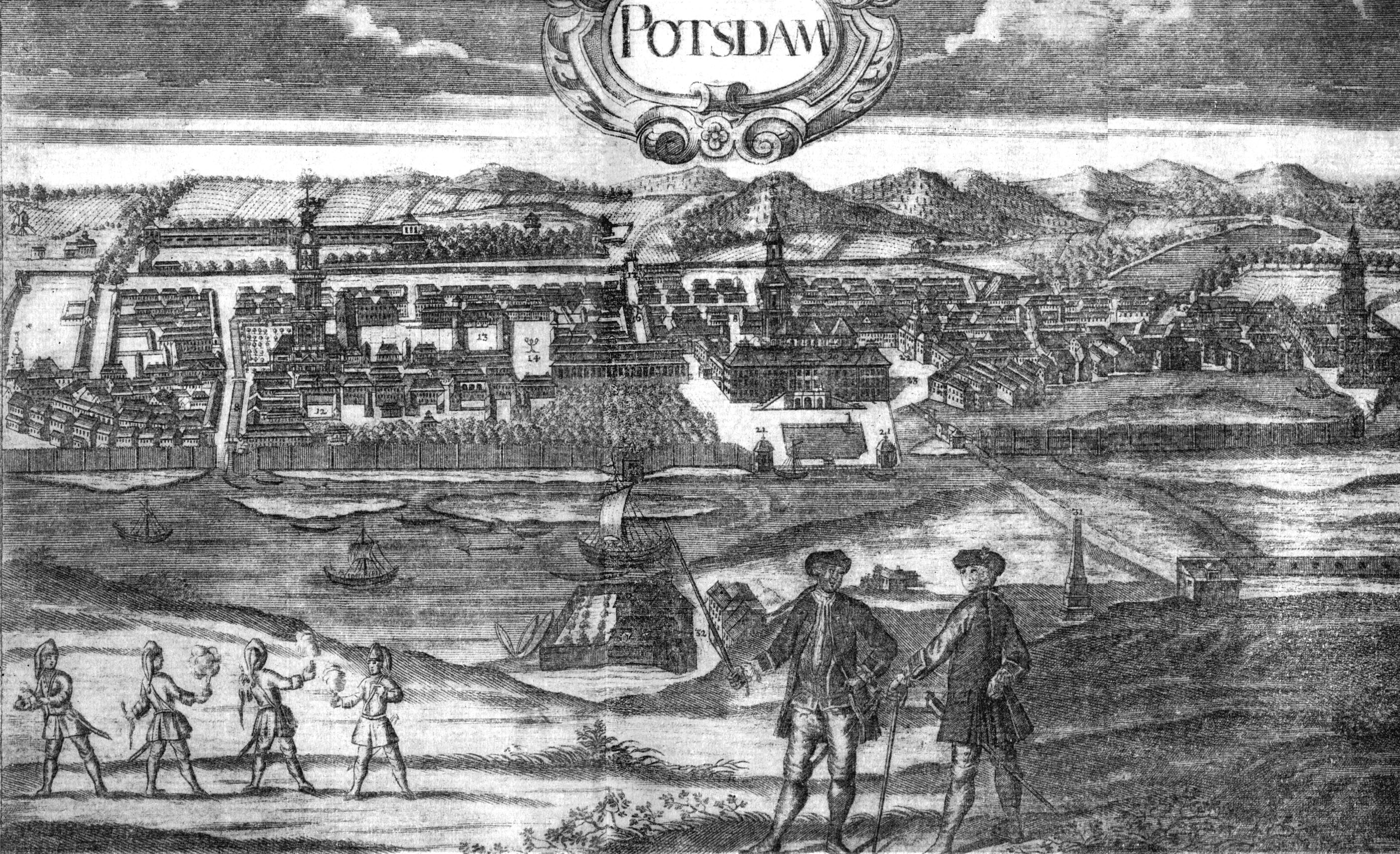 View towards the city of Potsdam from the Brauhausberg